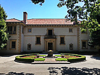 Villa Philbrook Entrance Facade